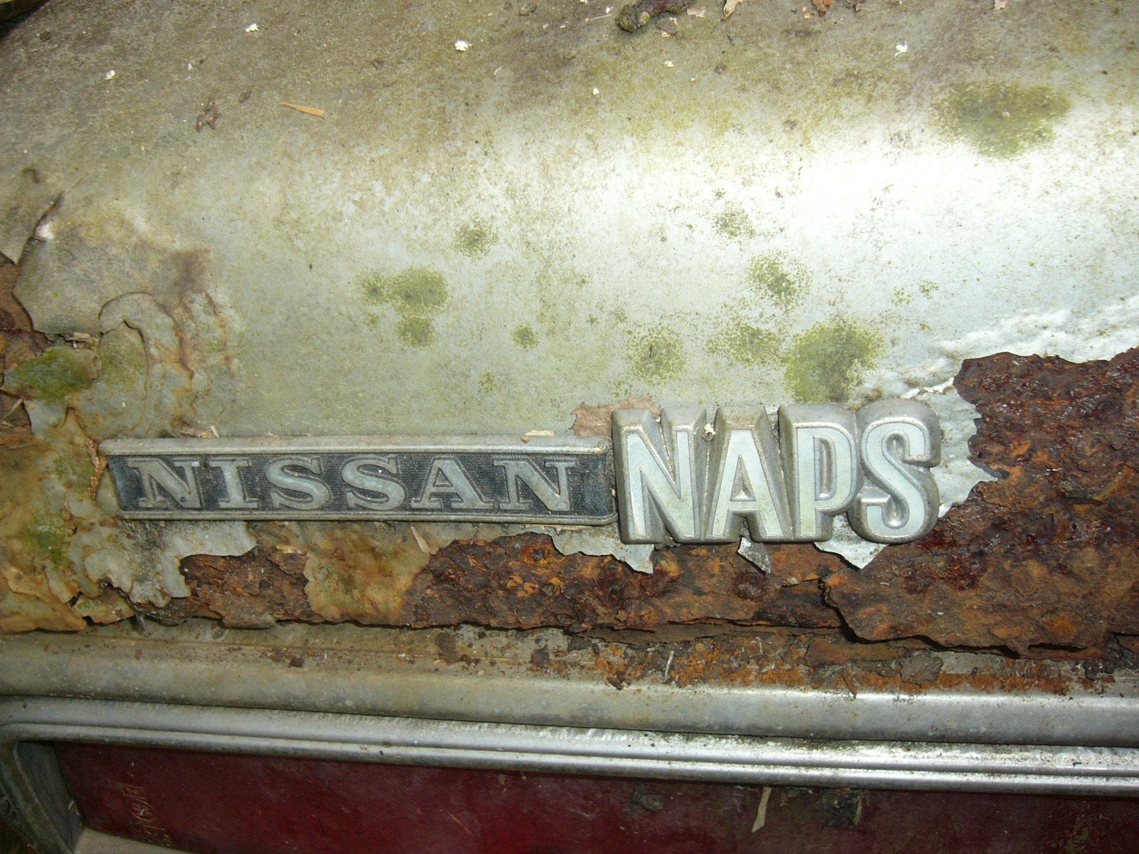 The logo of Nissan NAPS. A photograph is taken as the scrap of Nissan Violet 1600GL(A10).